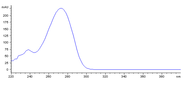 Caffeine UV spectrum